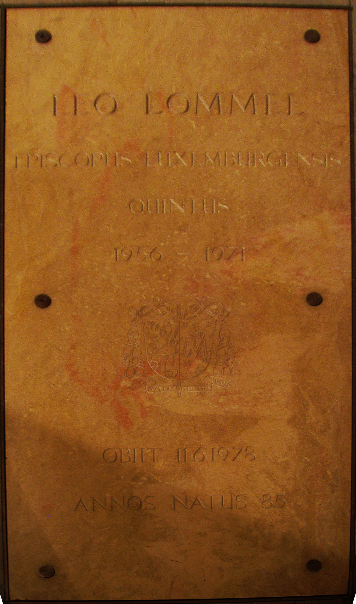 Gravestone of Bishop Léon Lommel + June 11 1978, in the Crypt of the Cathedral of Luxembourg